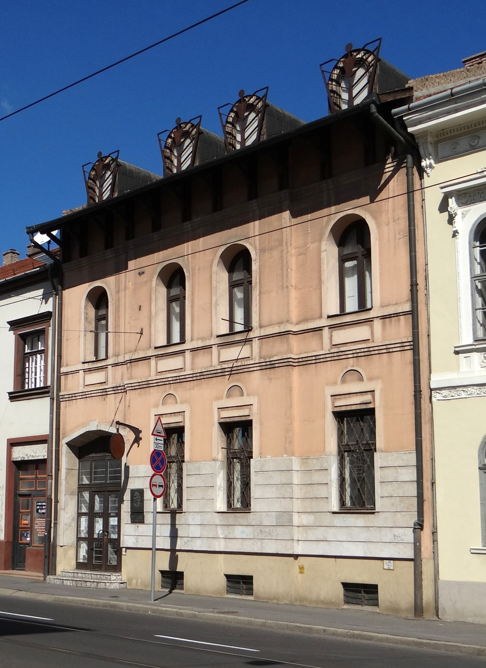 Petro House, Exhibition of Lajos Szalay graphic artist. 12 Hunyadi street, Miskolc, Hungary